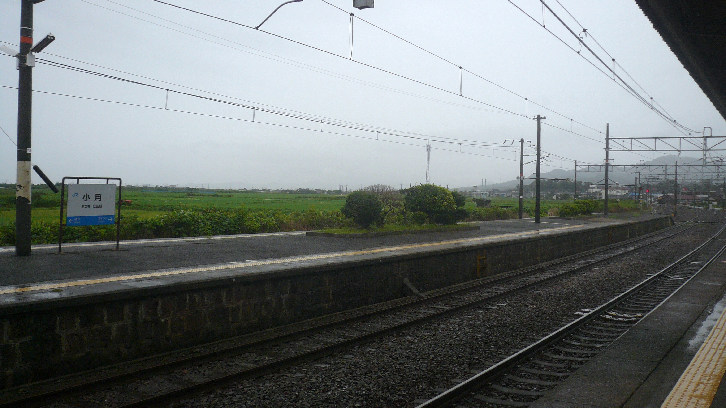 小月駅のホーム (Ozuki Station platforms) Panasonic Lumix DMC-FX7